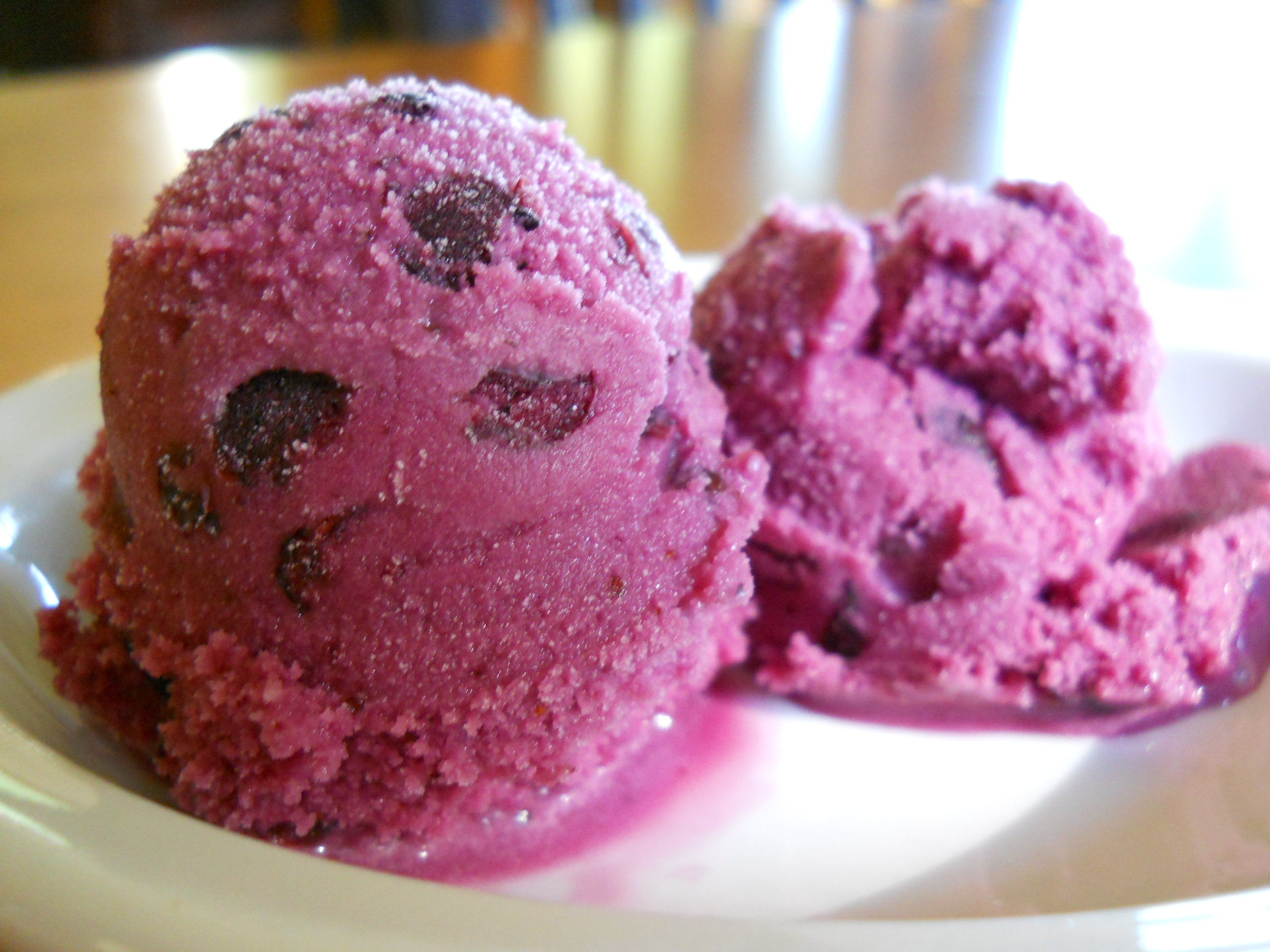 Yesterday I made two batches of ice cream. This one is wild blueberry frozen yogurt. The other was pink lemonade ice cream. Make a photograph of something cold today. Ice cubes, frosty beverages, or the freezer aisle at the grocery store.